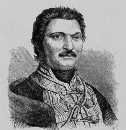 Portrait of János Bihari